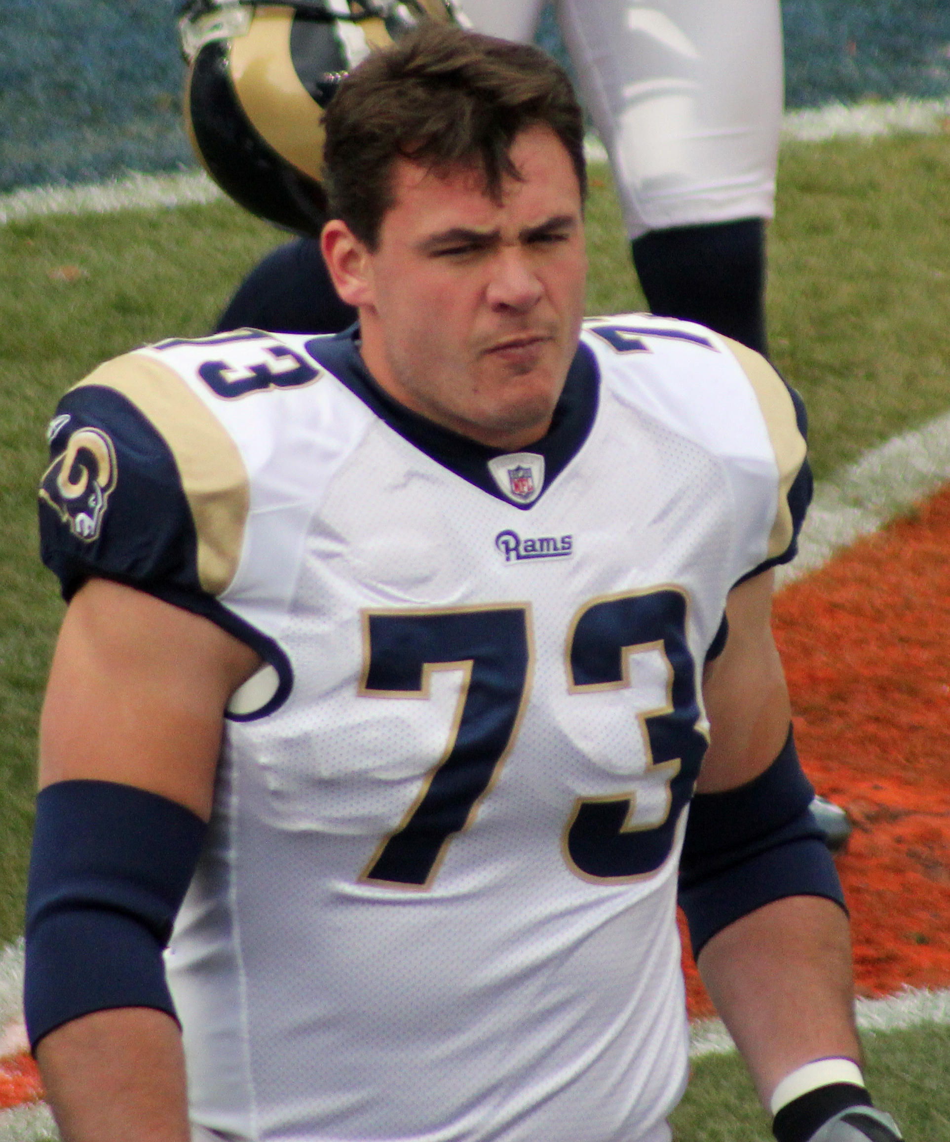 Adam Goldberg, a player on the Saint Louis Rama American football team.